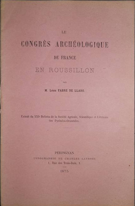 Book cover of the excerpt of Le congrès archéologique de France en Roussillon, published in Bulletin de la Société Agricole, Scientifique et Littéraire des Pyrénées-Orientales 21, p. 455-474